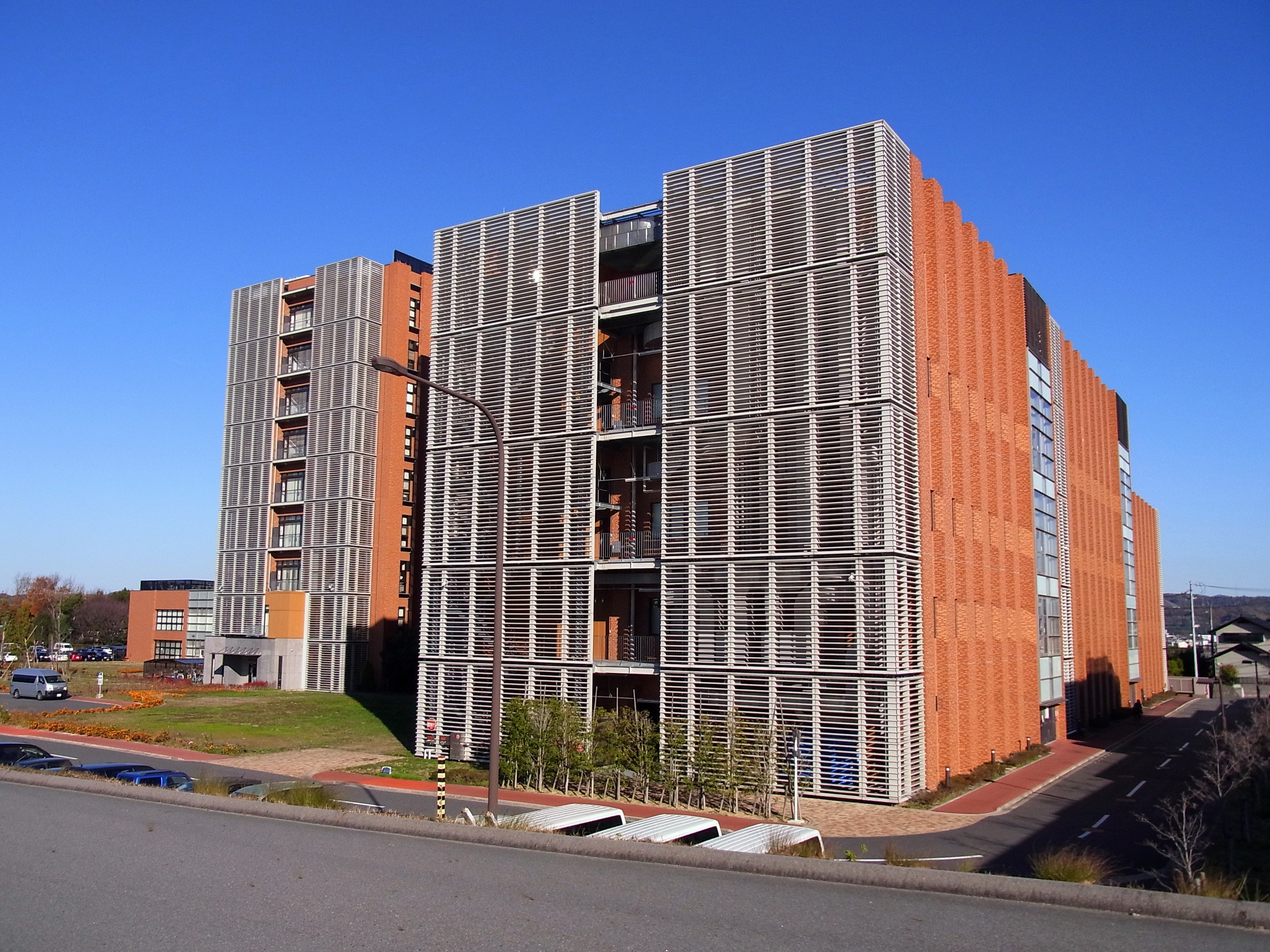 National Institutes of National Sciences Yamate Area in Okazaki city, Aichi prefecture, Japan.